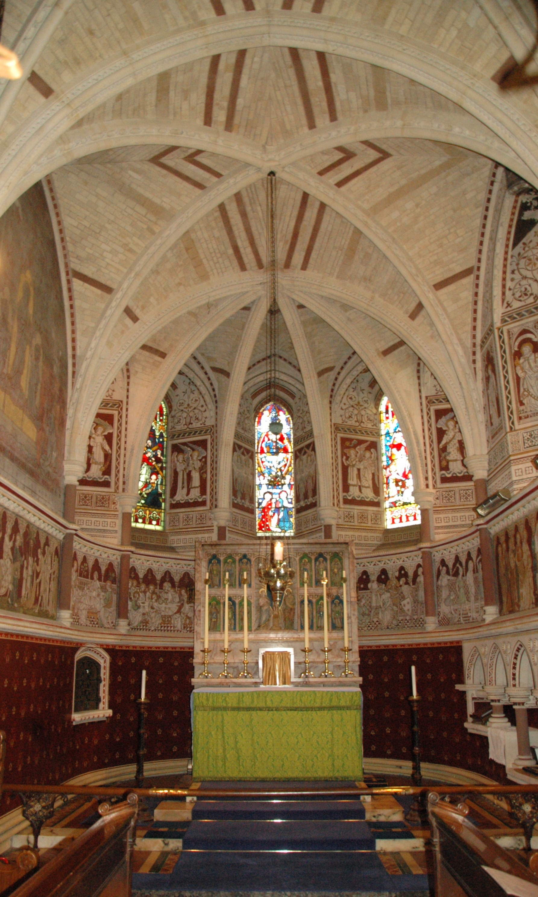 Church of England parish church of St Mary the Virgin, Freeland, Oxfordshire: apsidal chancel